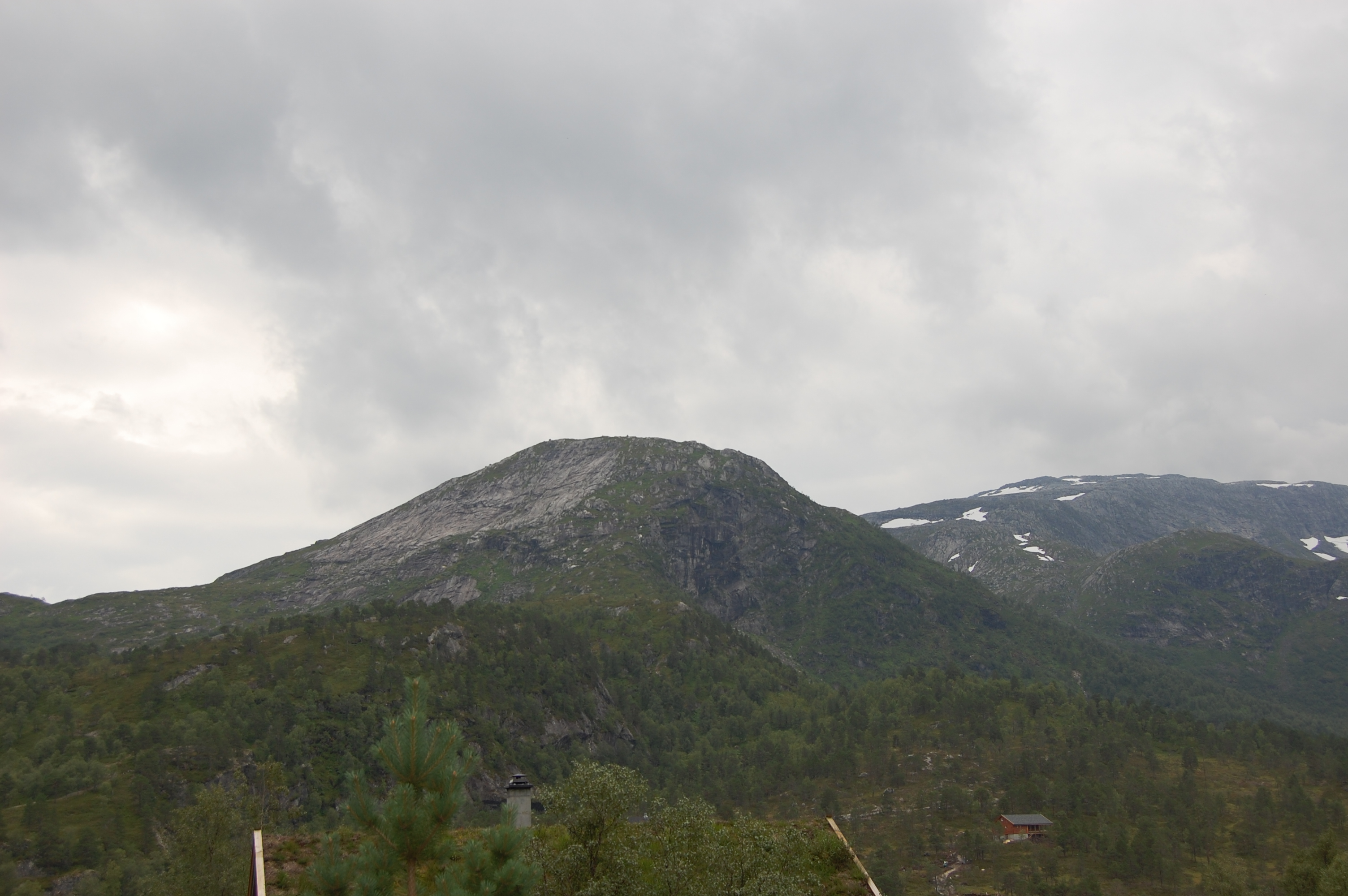 The mountain Knausen in Viksdalen, Gaular municipality, Sogn og Fjordane county, Norway